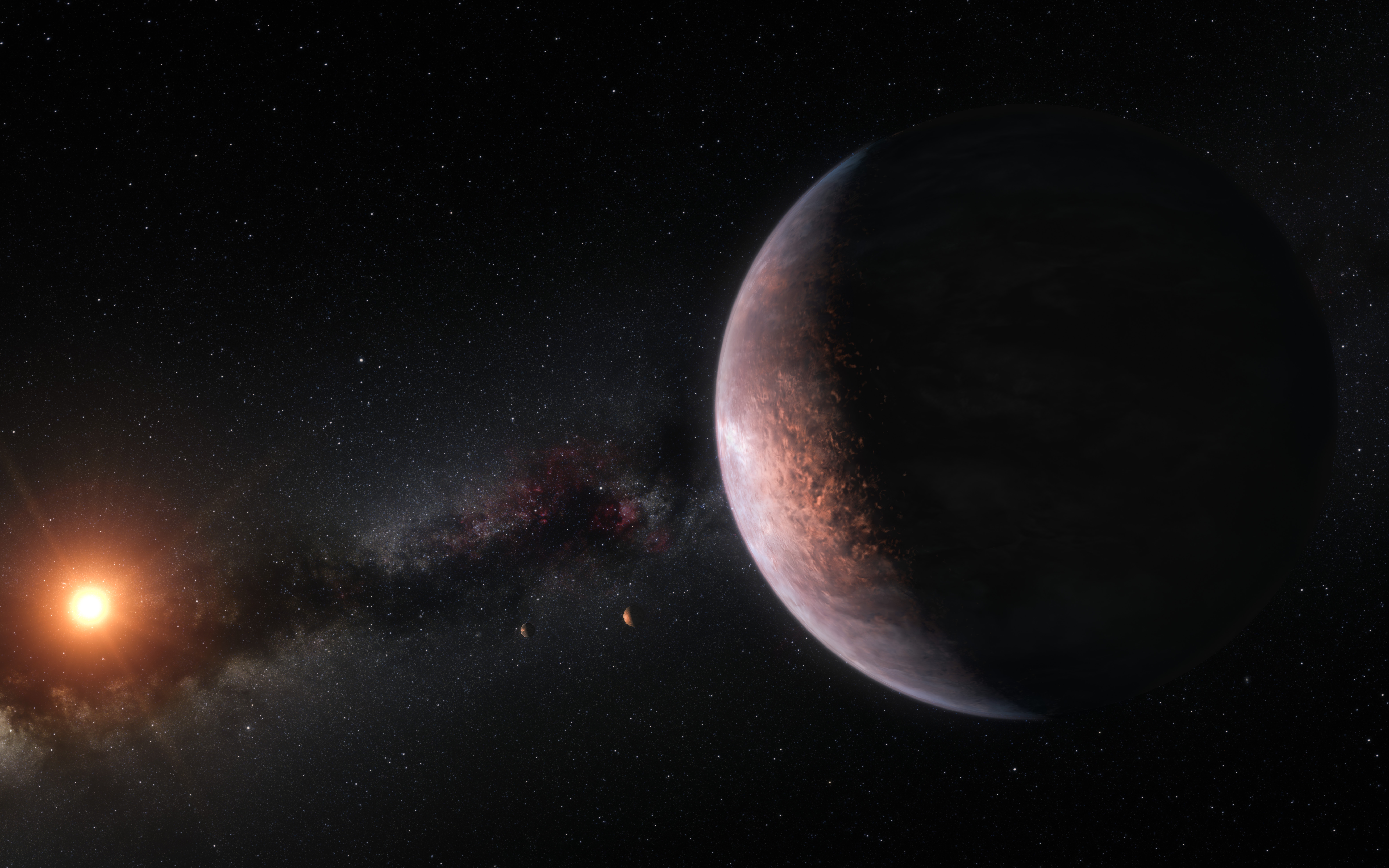 This artist’s impression shows several of the planets orbiting the ultra-cool red dwarf star TRAPPIST-1. New observations, when combined with very sophisticated analysis, have now yielded good estimates of the densities of all seven of the Earth-sized planets and suggest that they are rich in volatile materials, probably water.